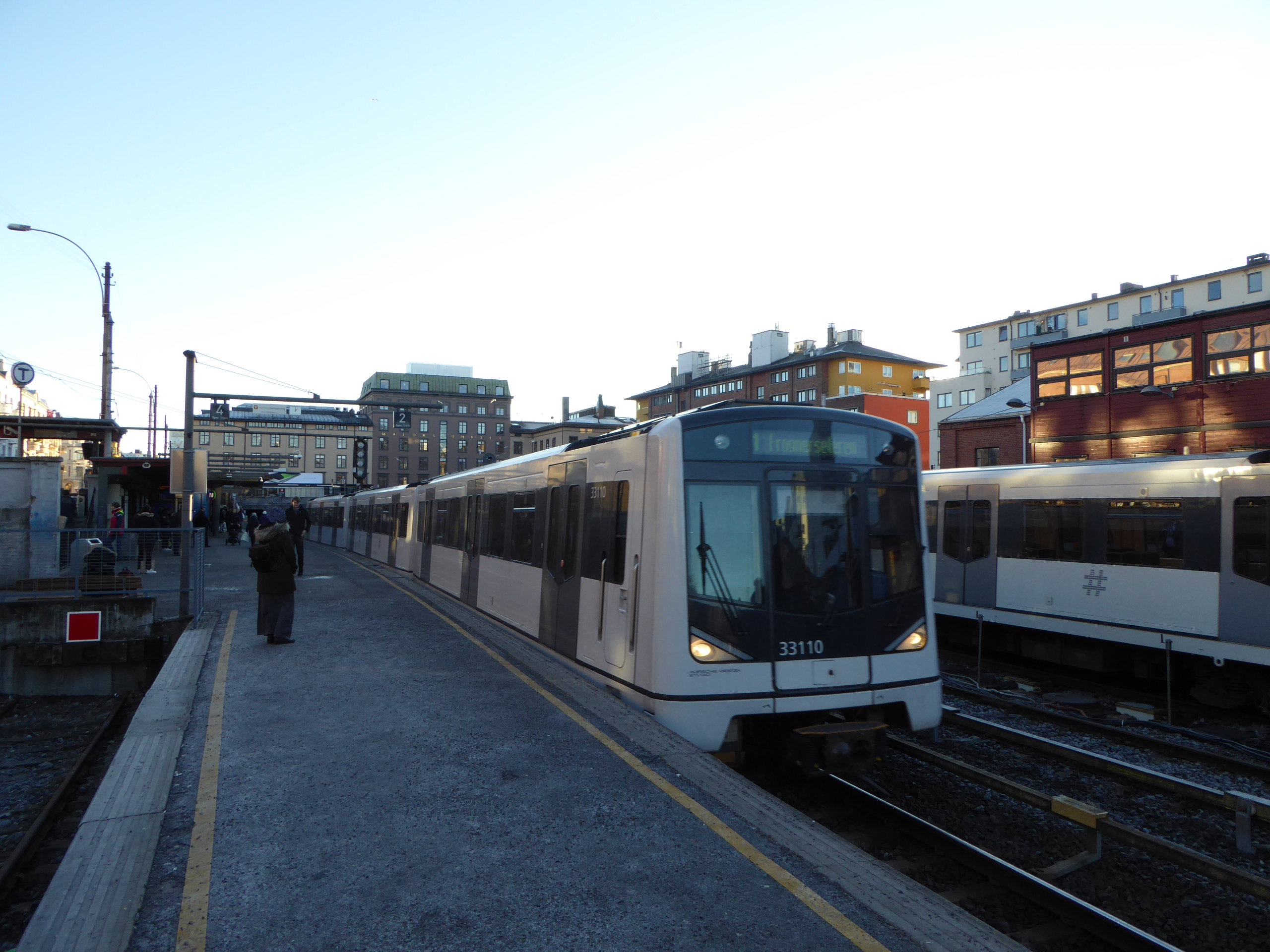 Oslo T-bane line 1 at Majorstuen Station.